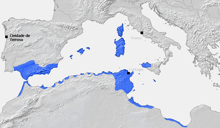 Original graphics from BishkekRocks Carthaginian civilization.